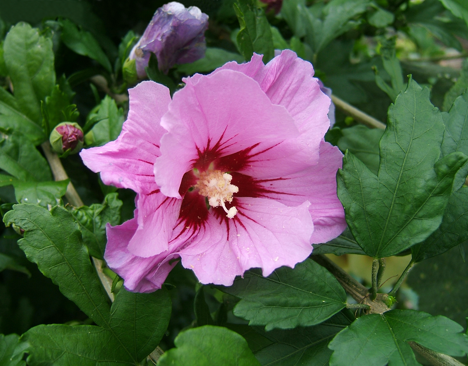 Rose of Sharon Hornjoserbsce: Syriska róžowa popla